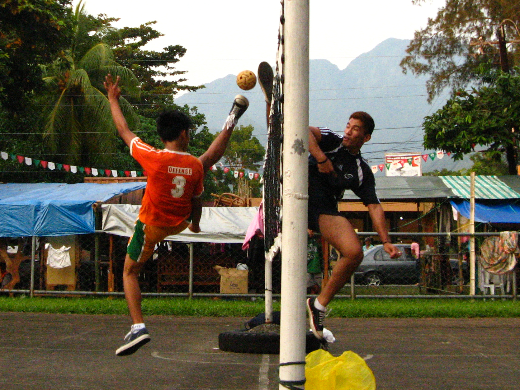 A game of sepak takraw (taken at the Visayas State University in the Philippines)